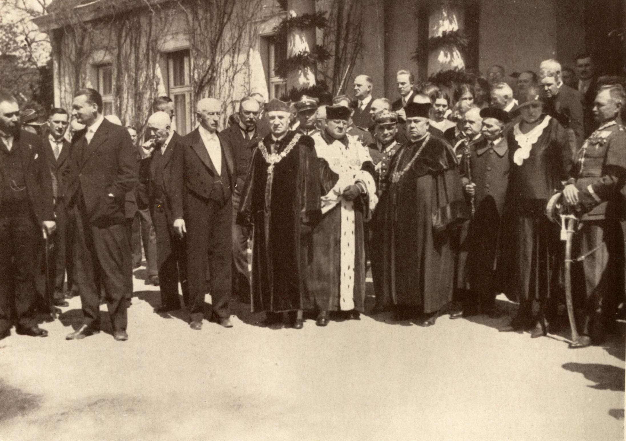 Photograph Of Count's Bogdan Hutten-Czapskis 80th Anniversarsy, 1931